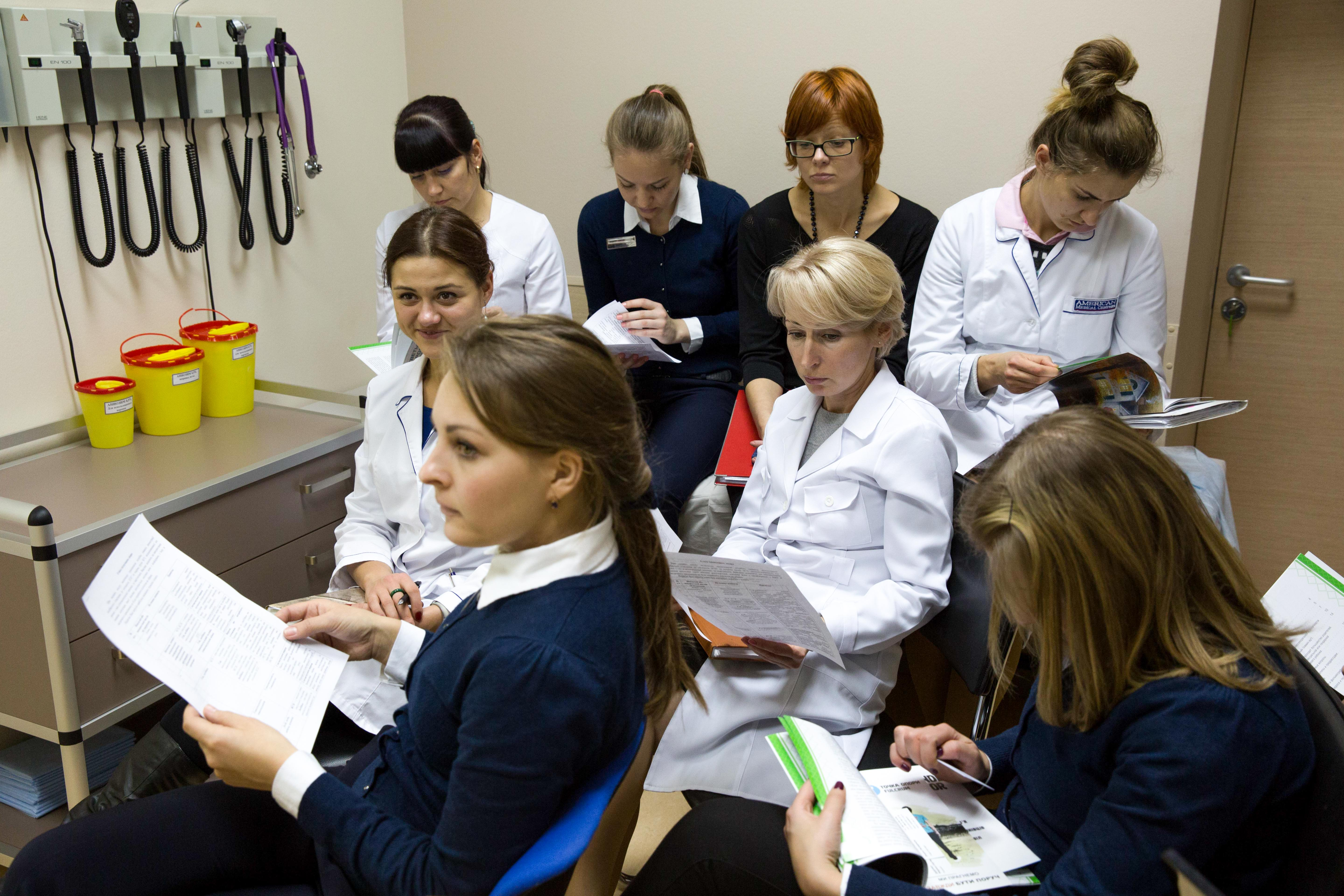 training of friendly doctor in AMC